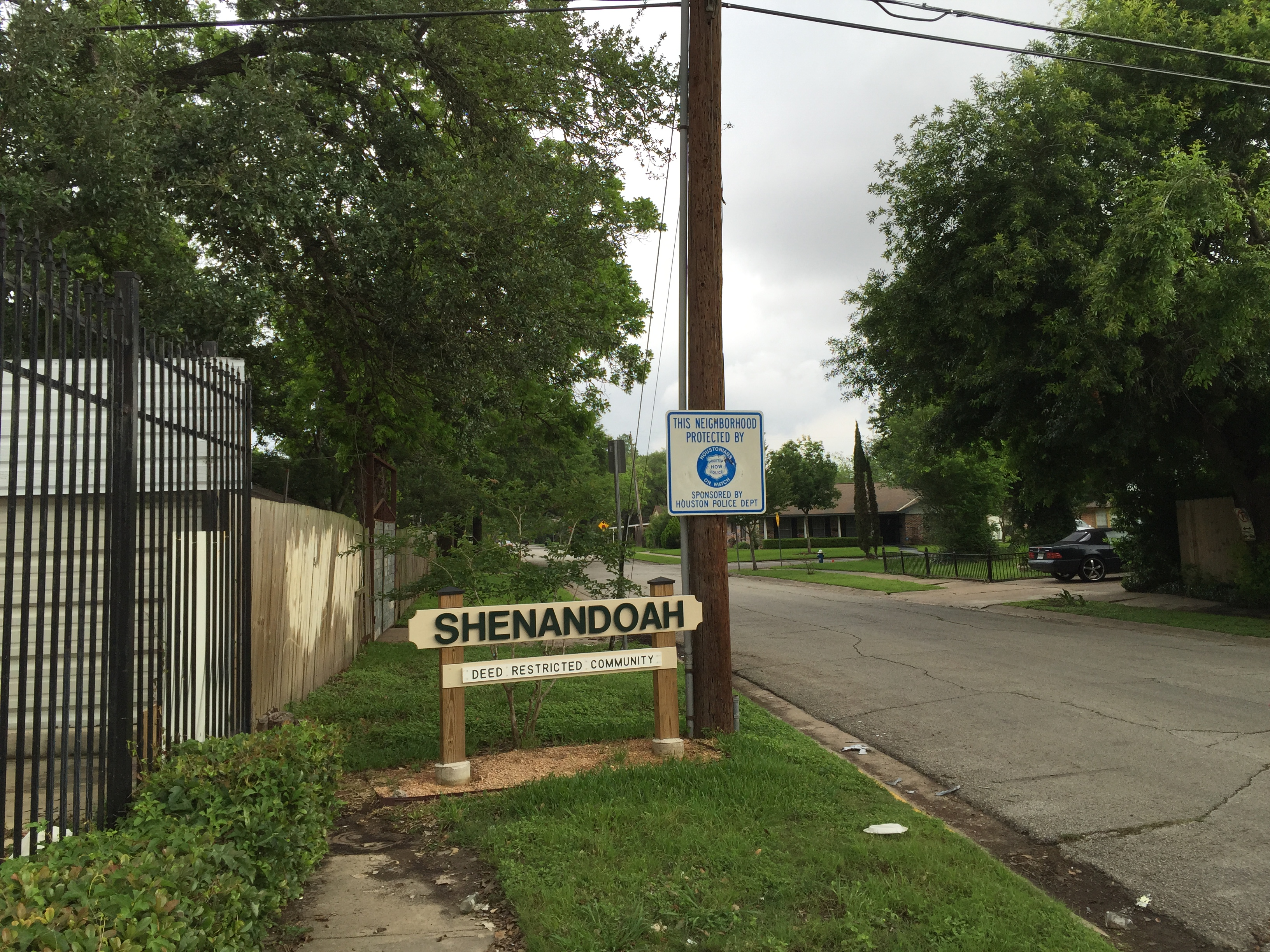 Shenandoah, Houston sign